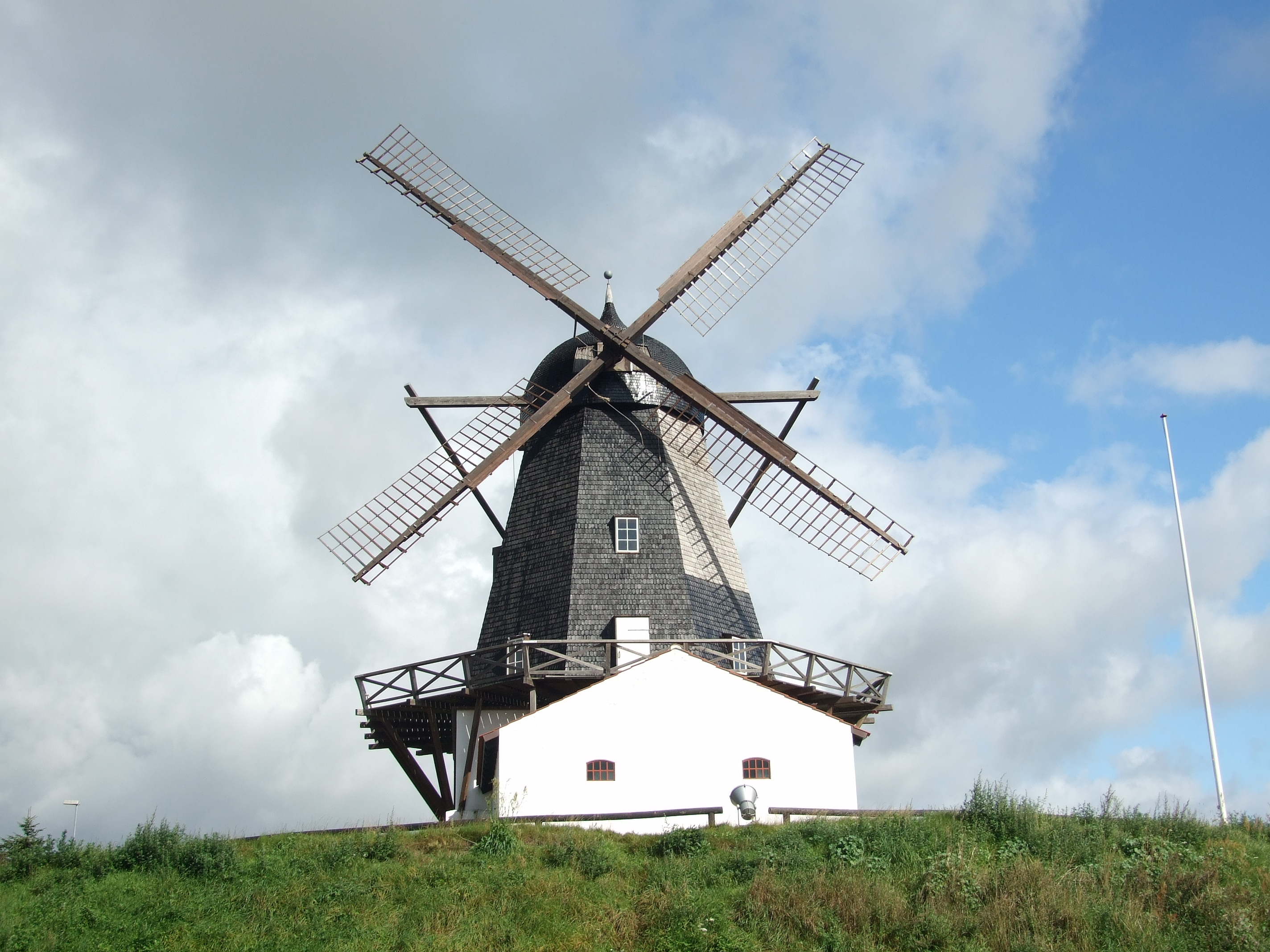 Bavnehøj mill in Grenaa, Denmark